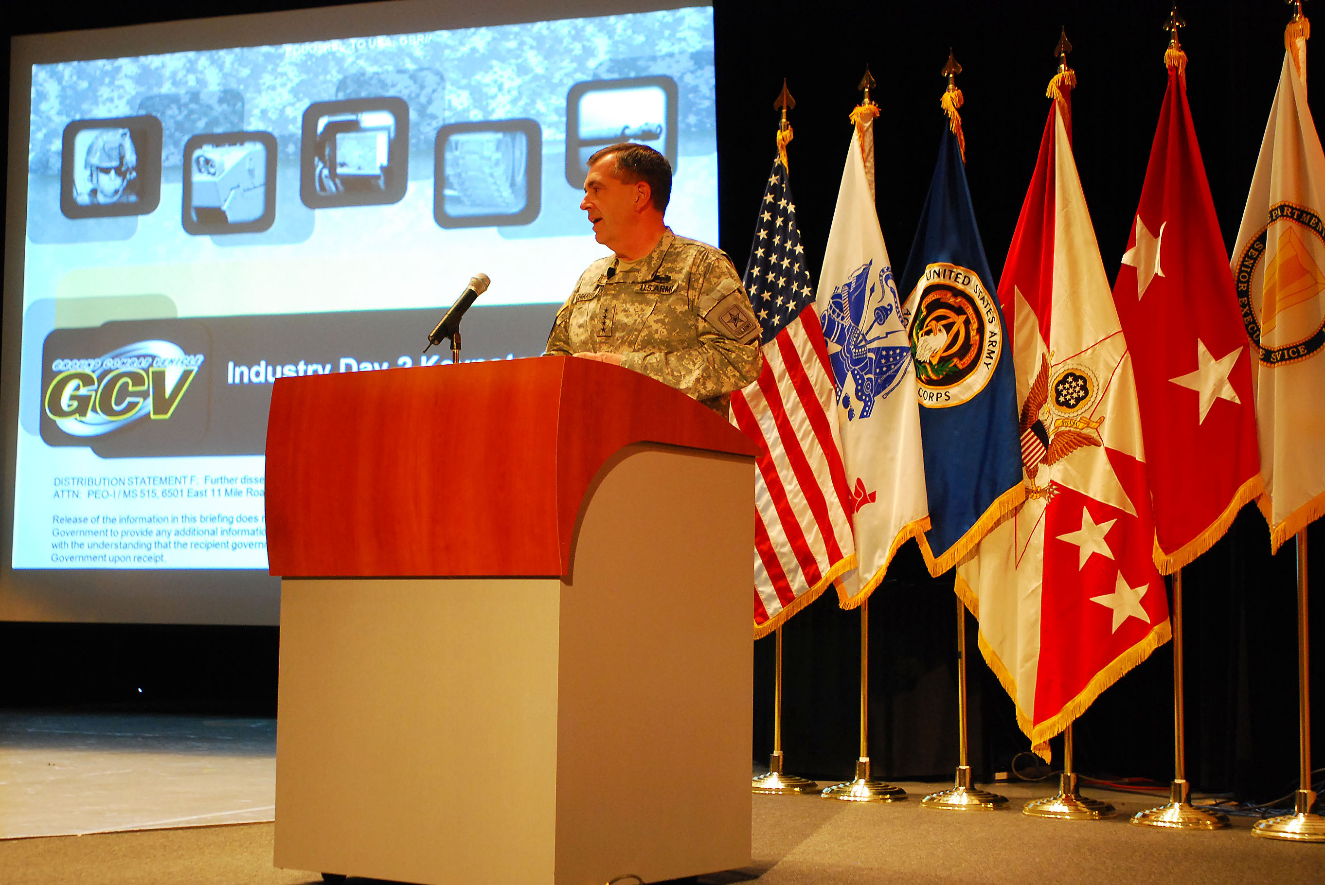 Vice Chief of Staff of the Army Gen. Peter Chiarelli hosts the second Industry days at the Tank Automotive Research, Development and Engineering Center in Warren, November 24.